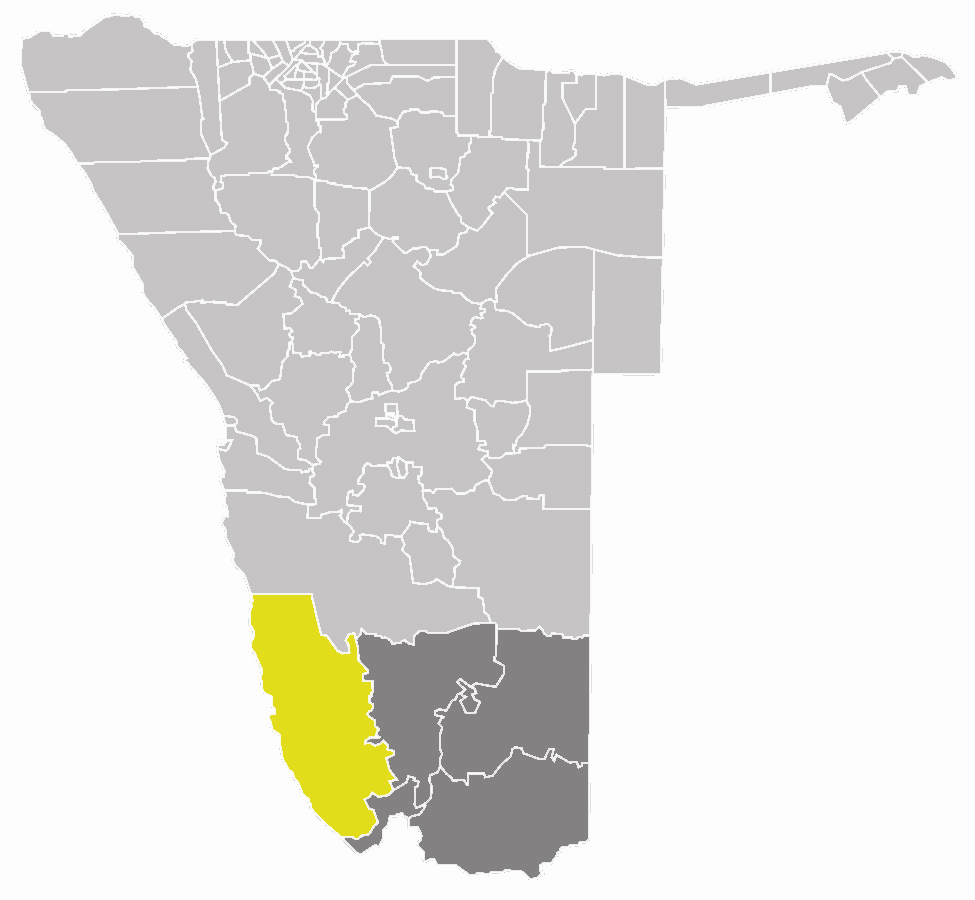 map of the Lüderitz constituency within the Karas region, Namibia